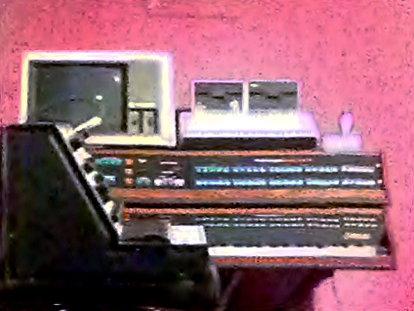 top to bottom Apple IIe computer connected via Computer Interface Rhodes Chroma Expander Rhodes Chroma left Korg MS-20 ? "Johanna's 2013 Piano Recital @ National Music Centre"